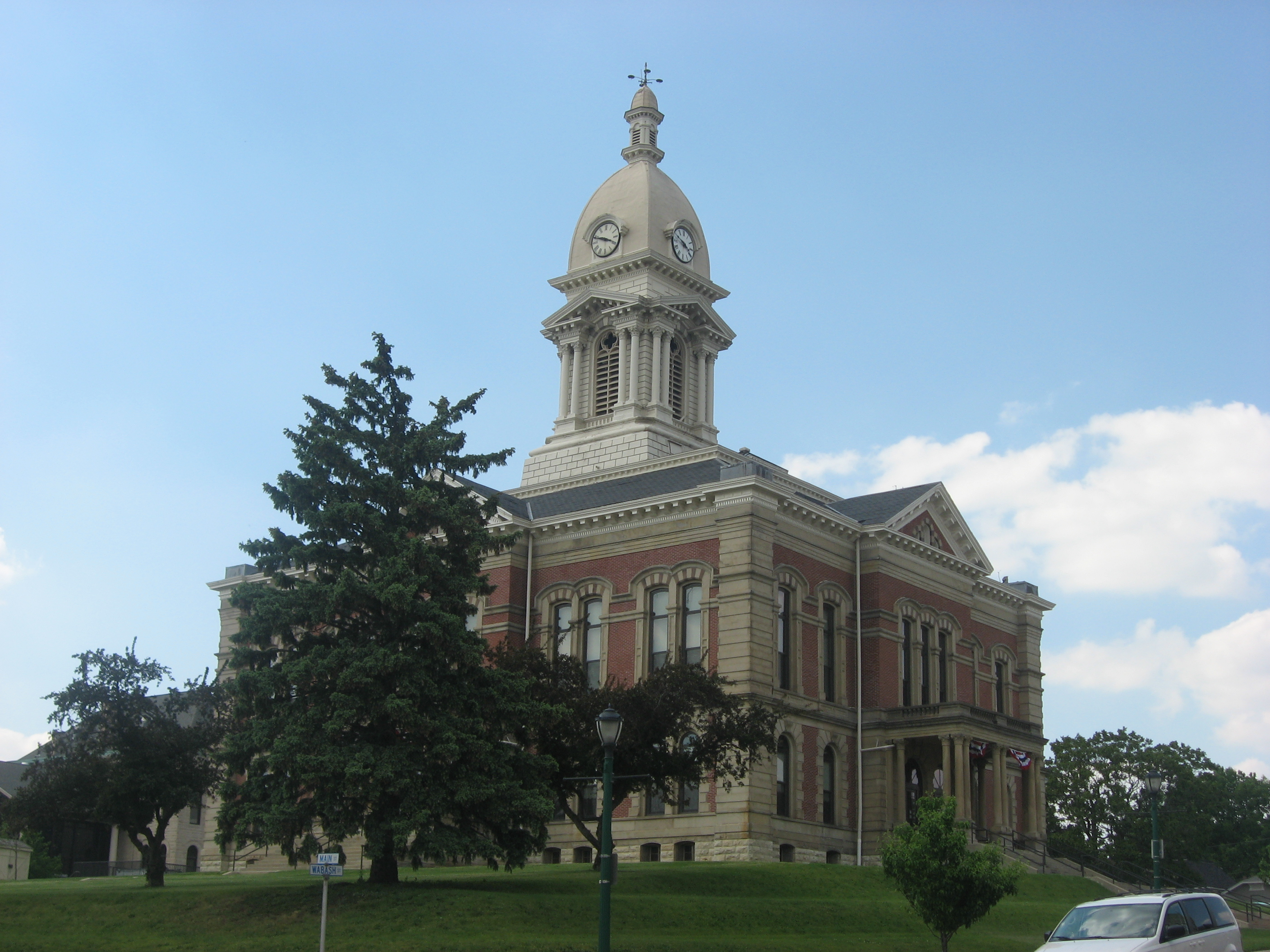 Southern and eastern sides of the Wabash County Courthouse, located along State Road 13 on Courthouse Square in Wabash, Indiana, United States. Built in 1879, it is listed on the National Register of Historic Places.